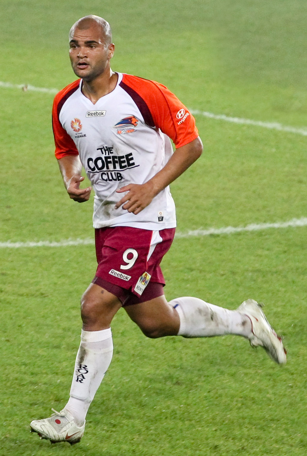 Sergio van Dijk playing against Sydney FC in round 7 of the 08-09 A-League